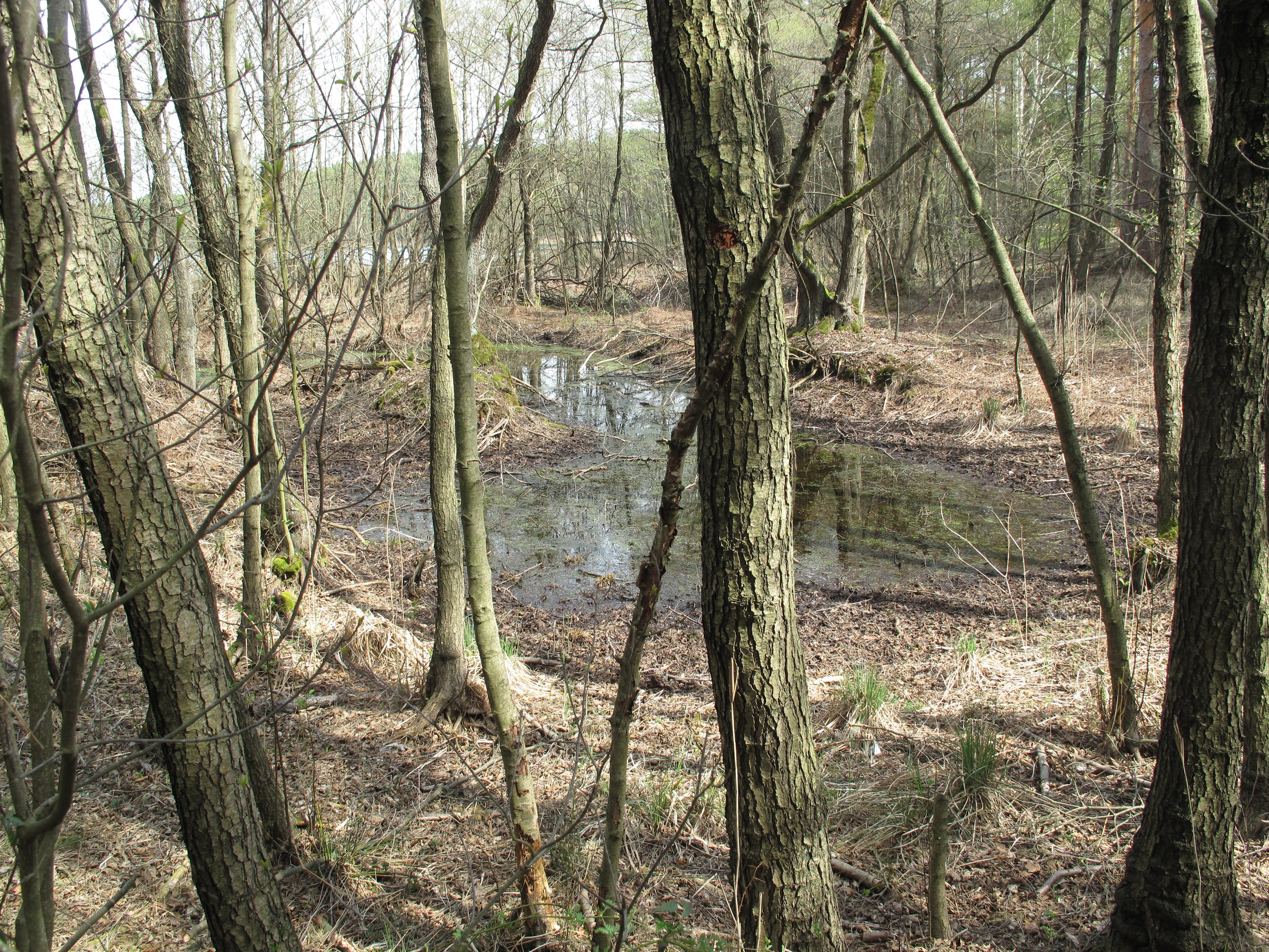 Swampy area at the southern bank of the Godnasee. The Godnasee is a lake in the village Kehrigk, ap part (german: Ortsteil) of the town Storkow, District Oder-Spree, Brandenburg, Germany. The lake covers 18 hectare and has a depth of max. 6,5 meters. It is situated in the Dahme-Heideseen Nature Park at he border to the Spreewald Biosphere Reserve. It is declared as bathing lake for nudists.